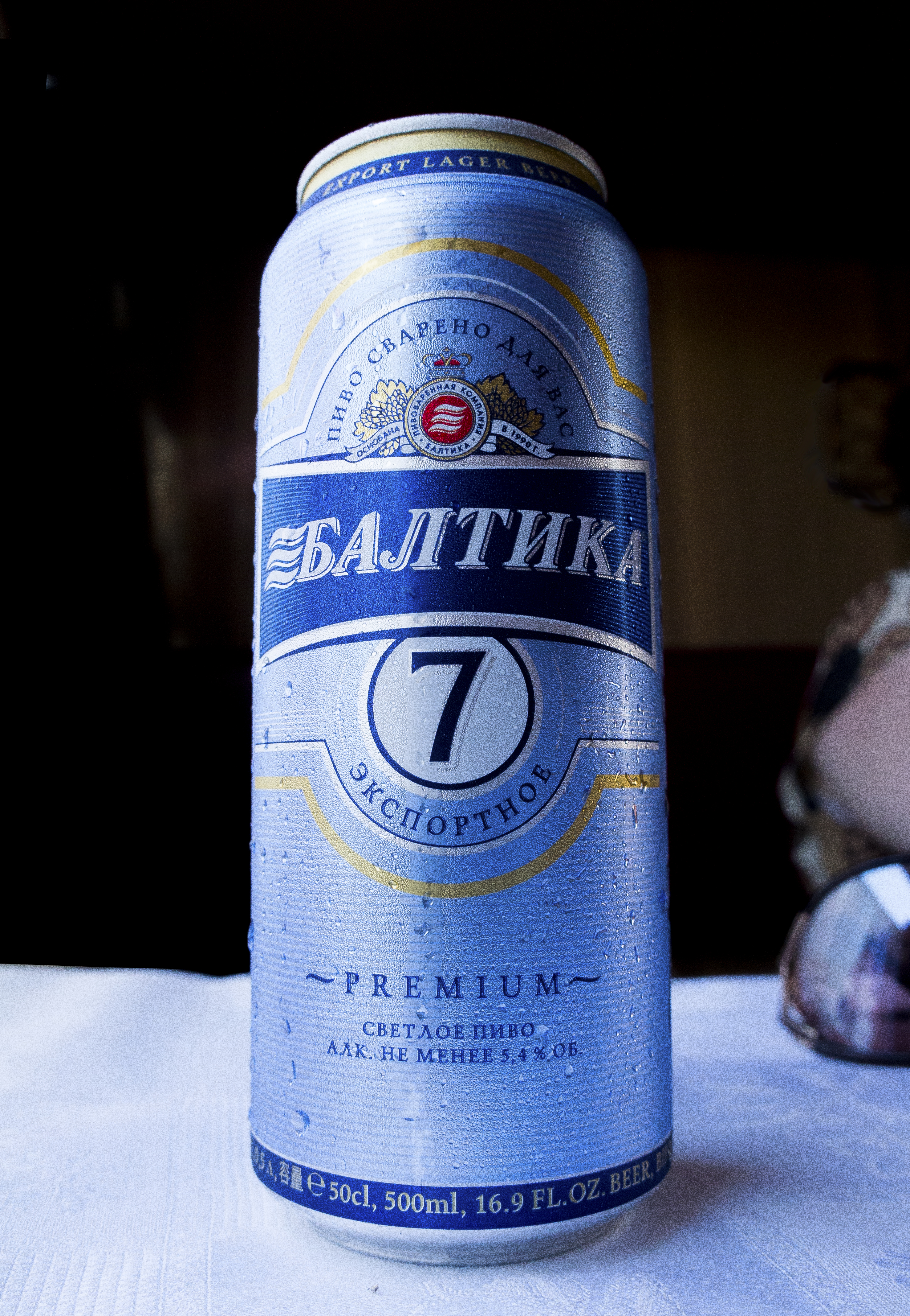 Russian beer, Baltika 7. Српски (ћирилица): Балтика 7, руско пиво.